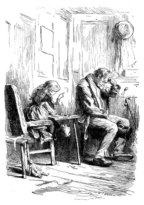 A young girl points an accusatory finger at her father, whose hand to his forehead is suggestive of the introspection and anguish of the alcoholic parent